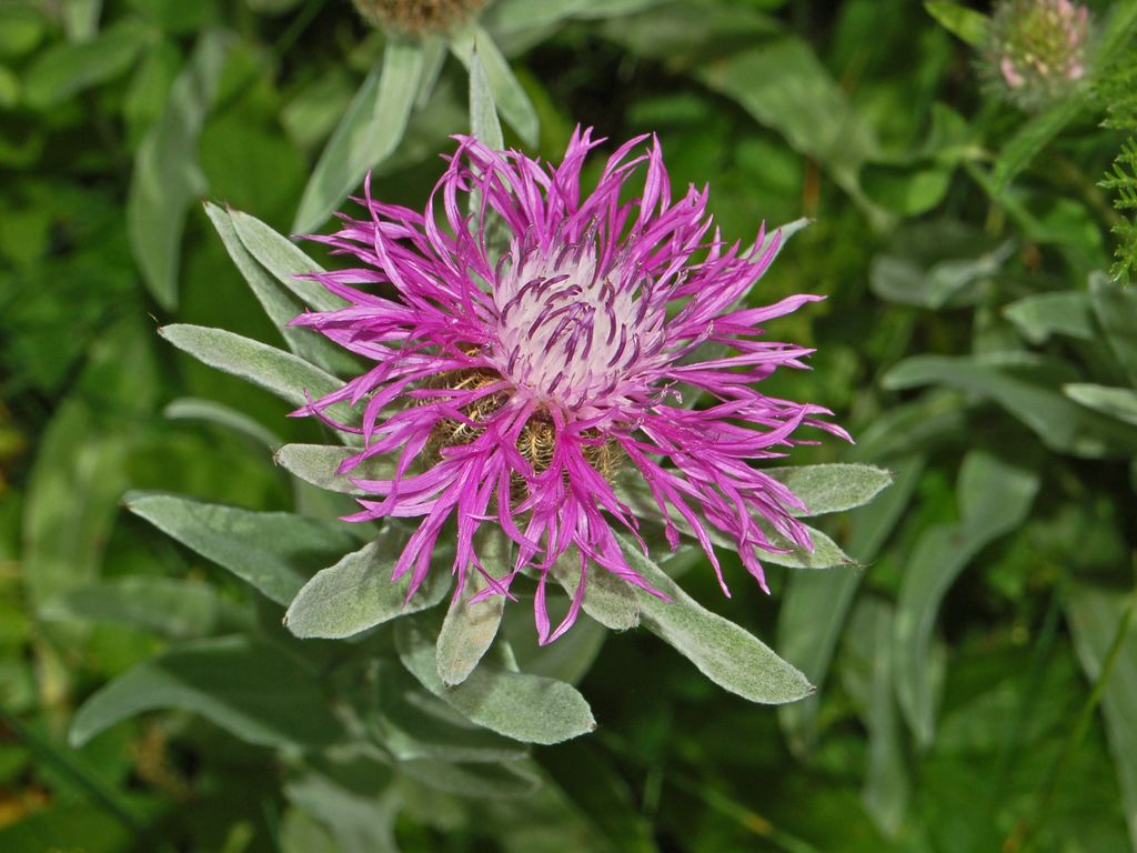 Centaurea uniflora - Parque des Ecrins, FRance